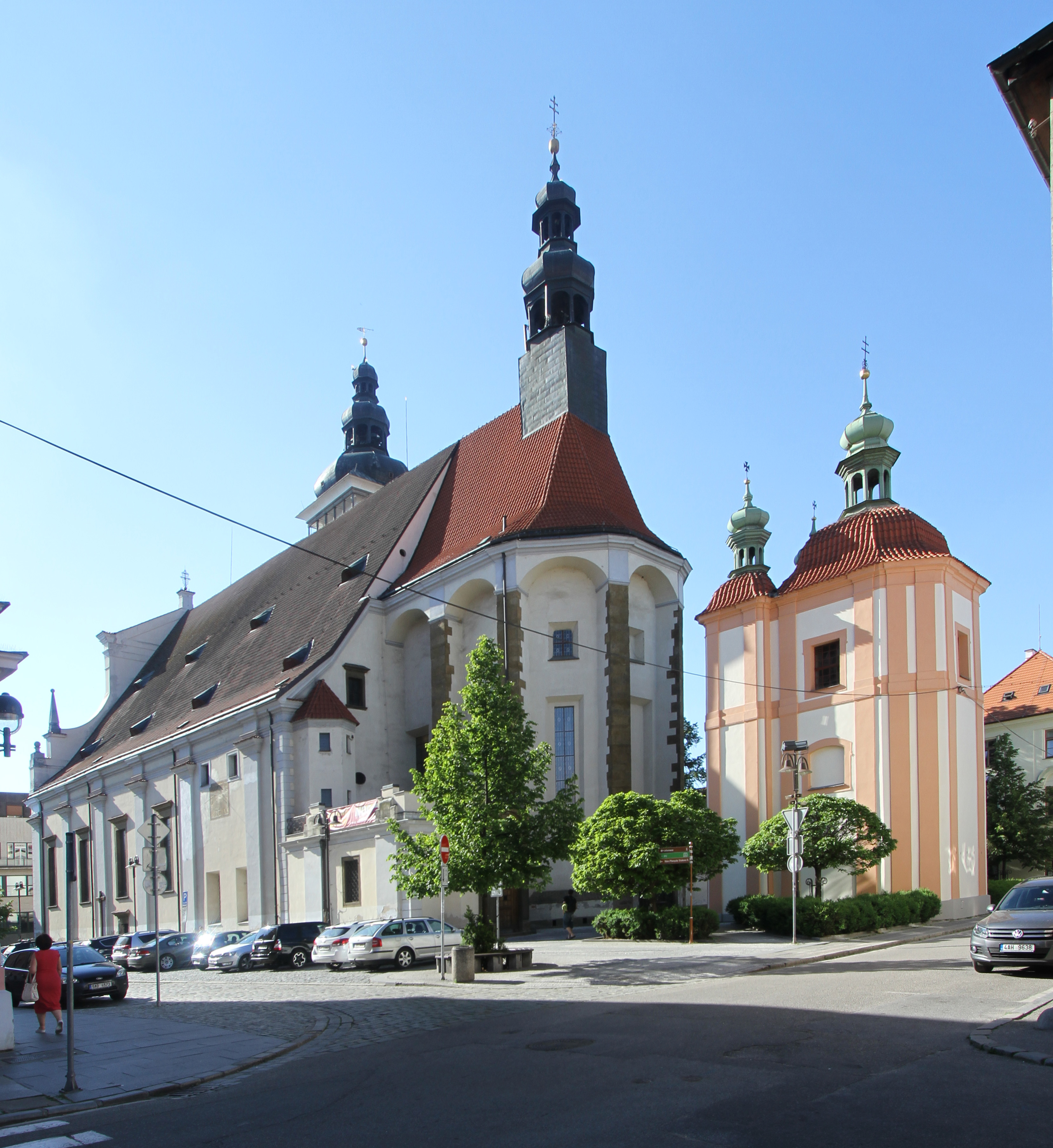 Katedrála svatého Mikuláše in České Budějovice.